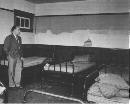 A black and white image of Dr. Le Vann in the Michener Centre, before a number of empty patient beds